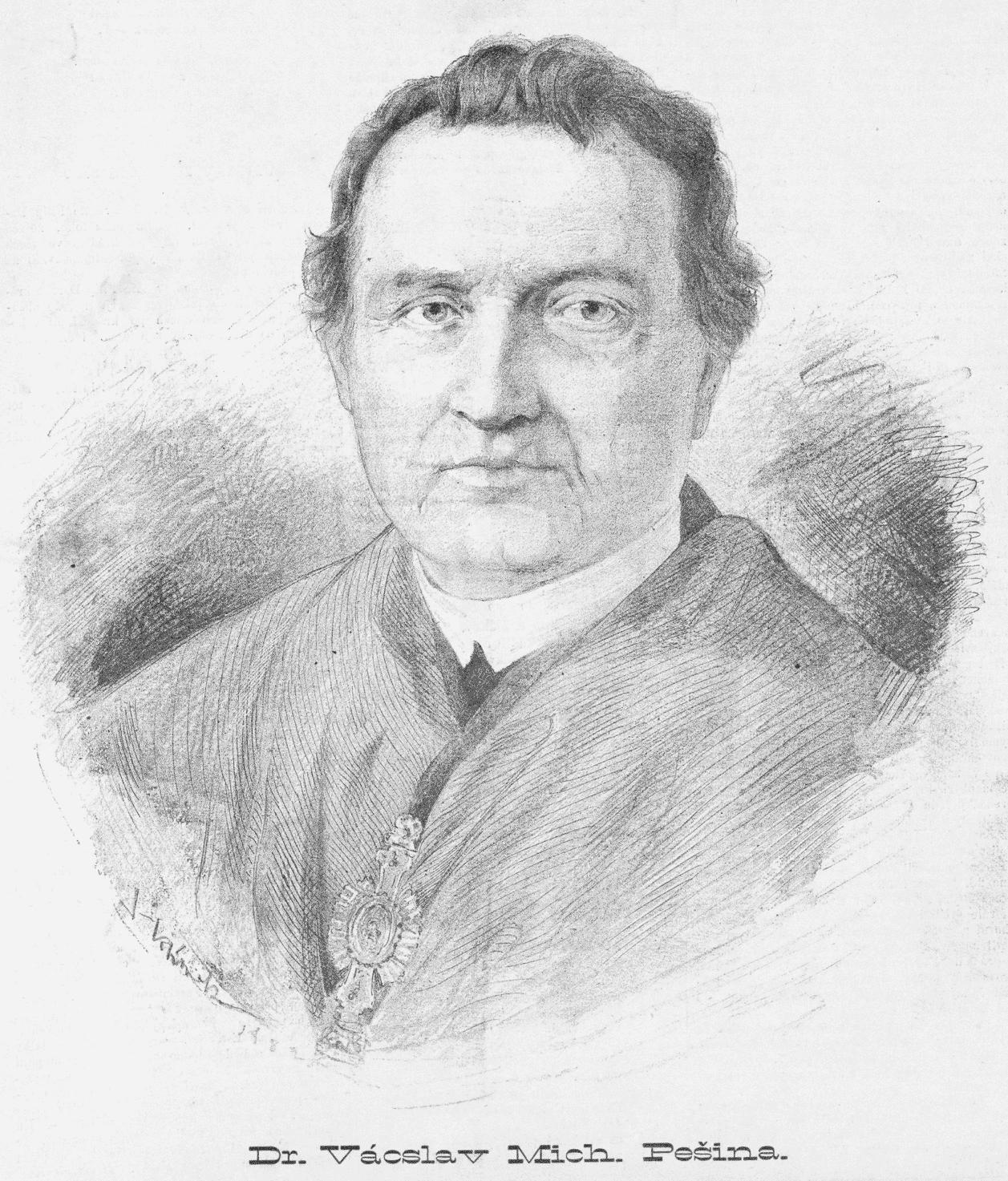 Portrait of Václav Michal Pešina z Čechorodu (1782 - 1859), Czech priest and organizer of public support for the completion of St. Vitus Cathedral in Prague.